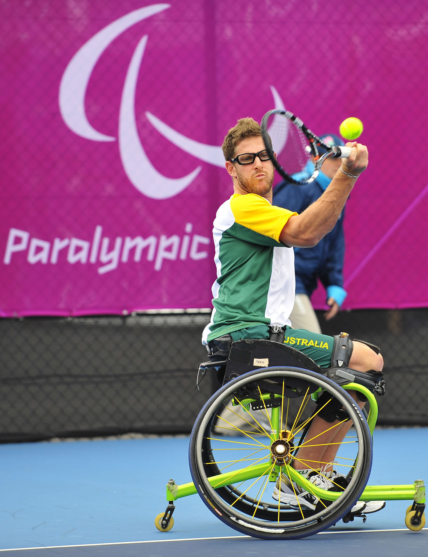 Photograph of Australian Paralympic team member Benjamin Weekes at the 2012 Summer Paralympic Games in London